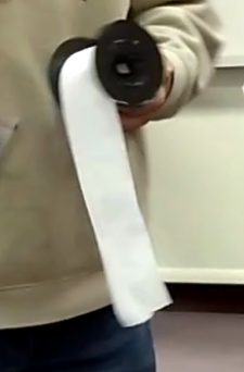 Martinsburg, WV, 2018-11-06. The paper rolls ahead to show each voter the choices made, and could be hand-counted if the electronic records are suspect. A roll is taken out of each iVotronic machine at the end of the day and stored in case it is needed.